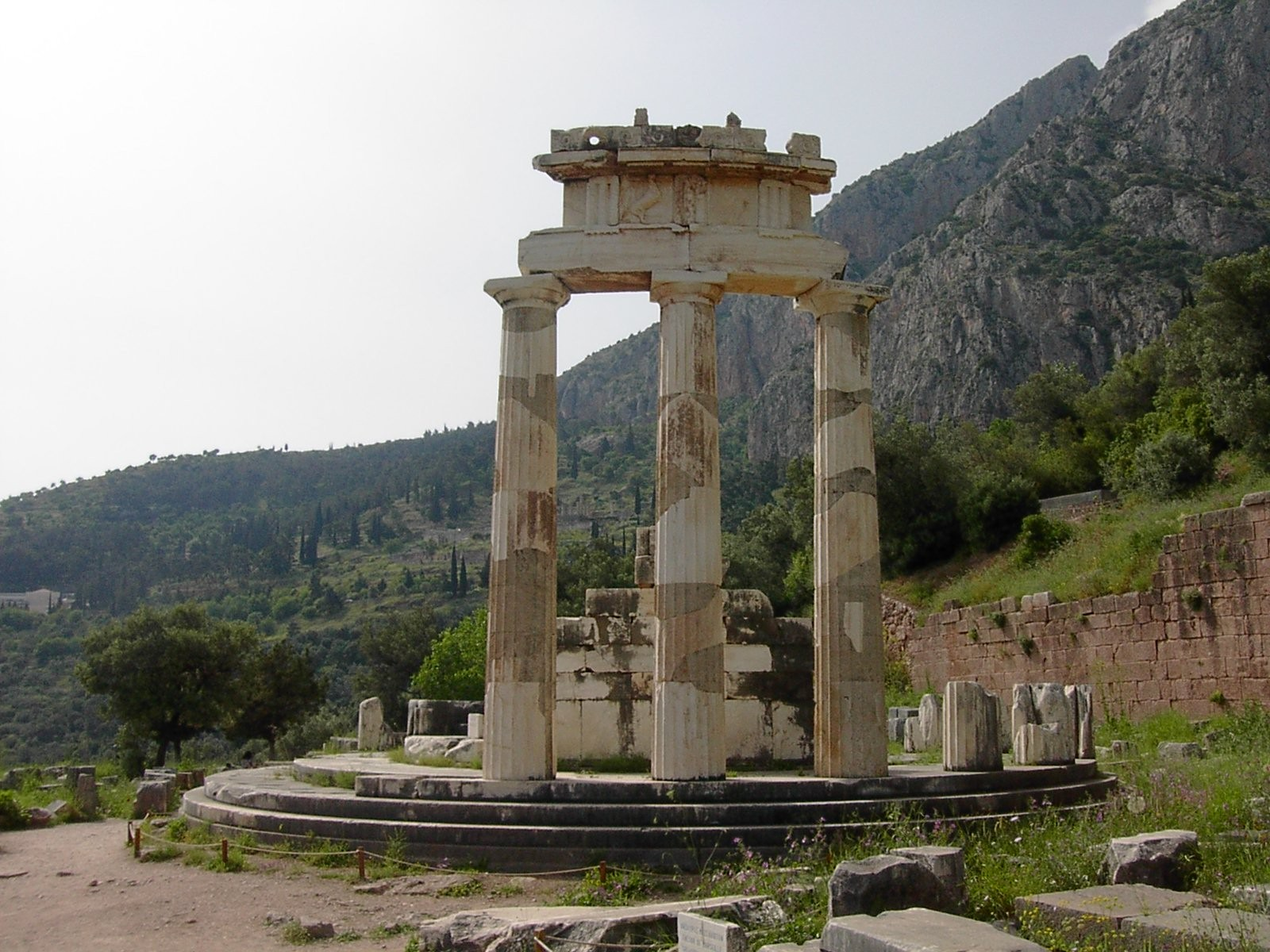 The Tholos at Delphi.